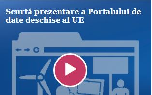 Screenshot from EUODP